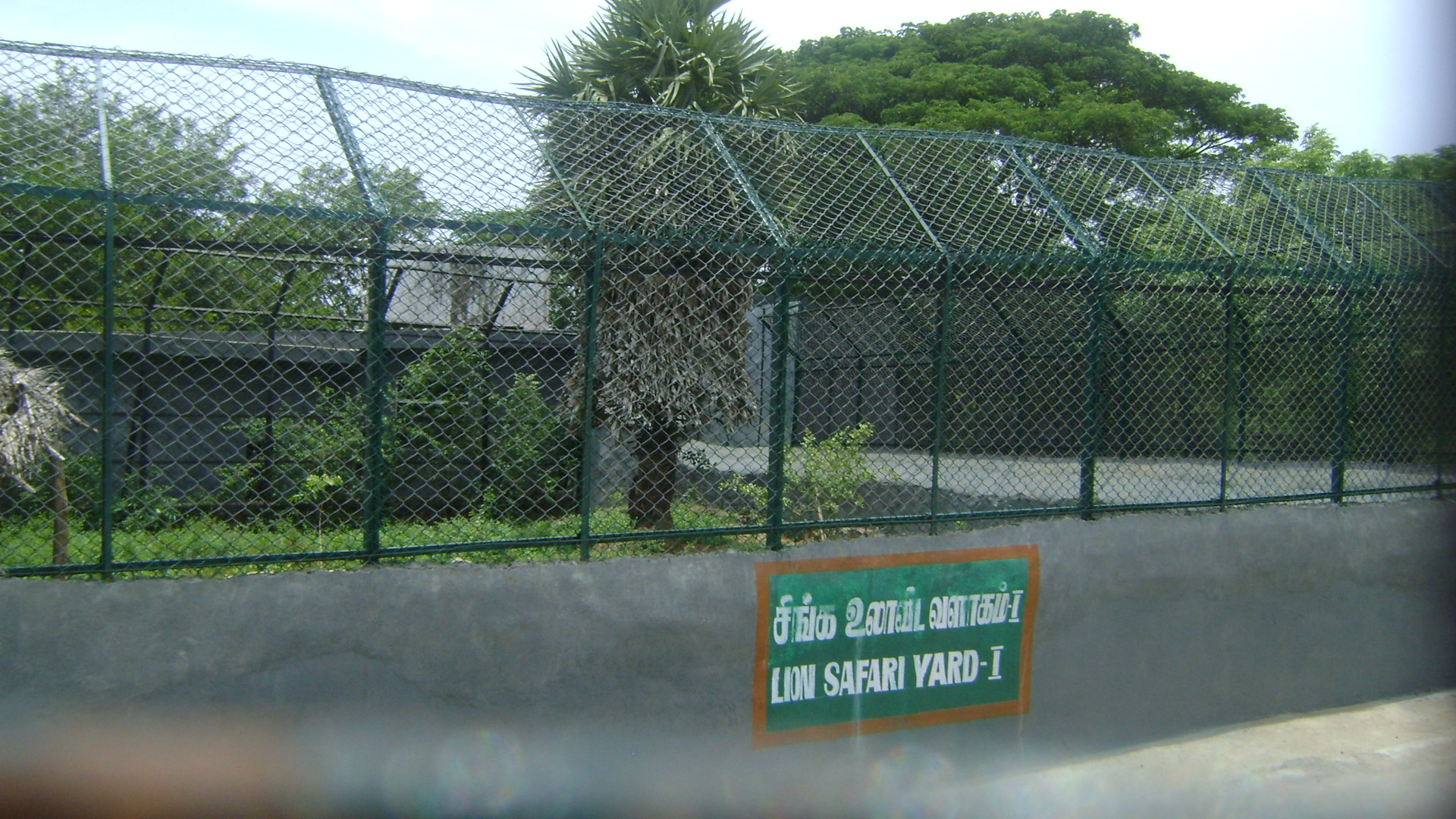 One of the yards at Lion Safari at Vandalur Zoo, taken on 18 August 2012